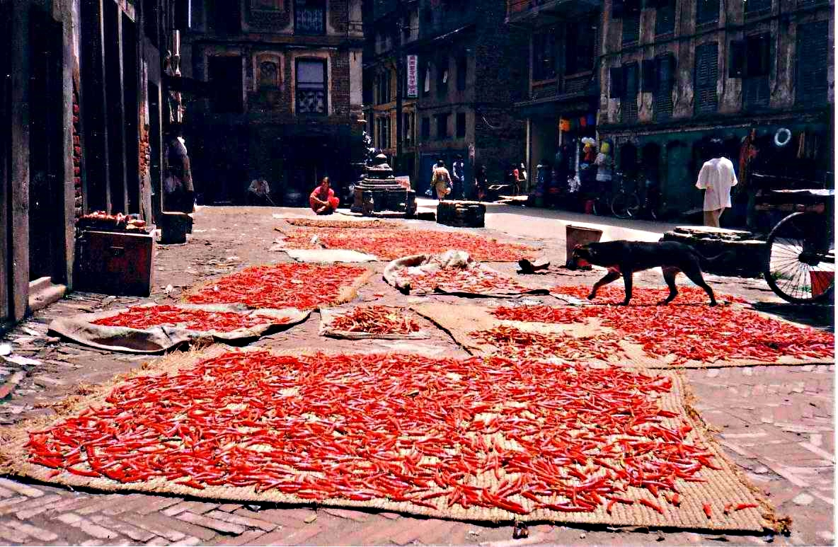 Chillies drying in Kathmandu. I, John Hill, took this photo myself in 1993